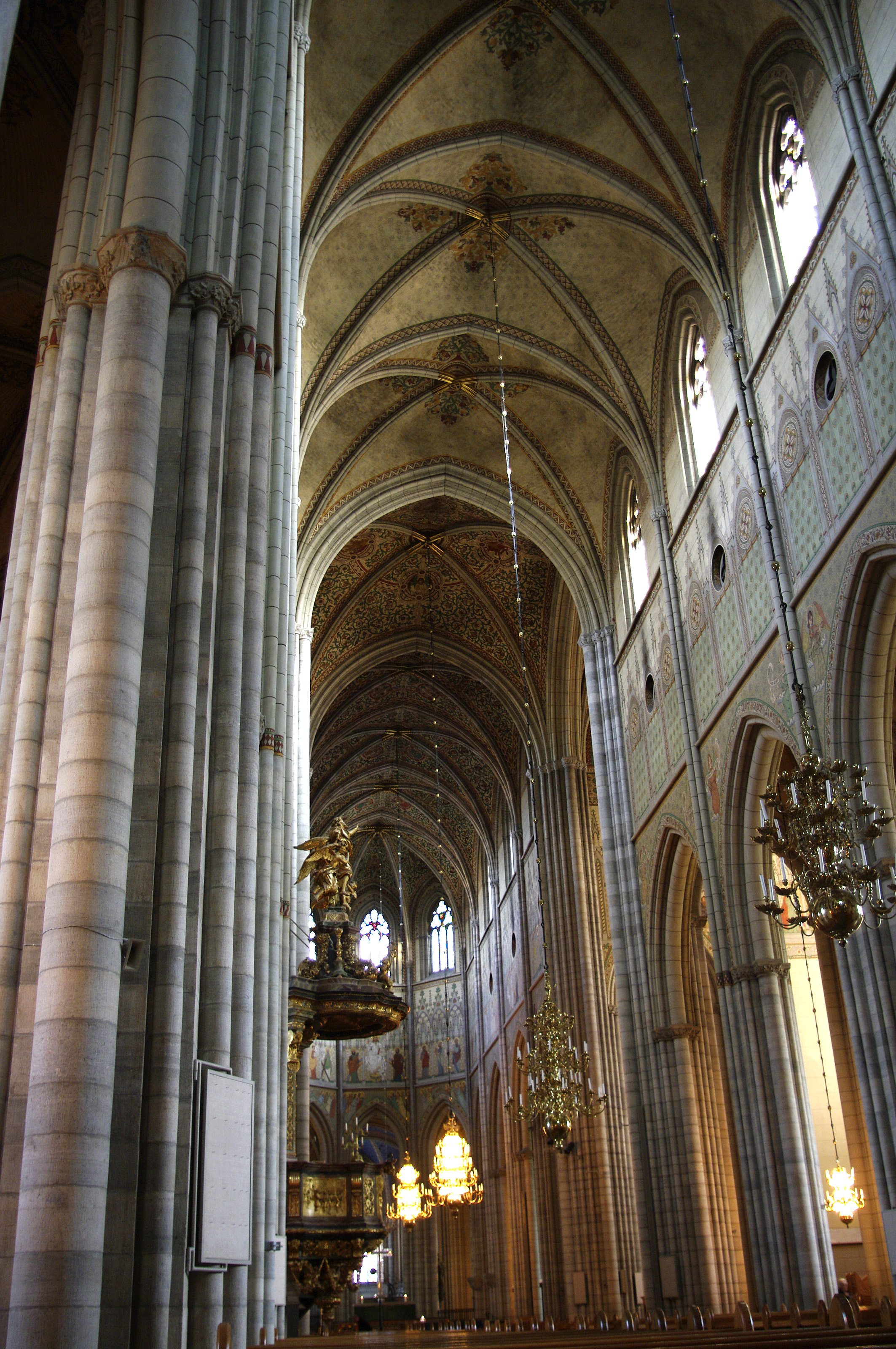 The Dome of Uppsala, Sweden